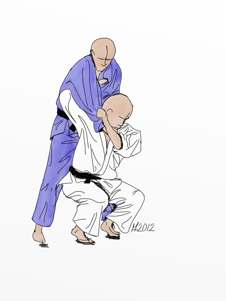 Illustration of the judo throw morote-seoi-nage, or two-handed shoulder-throw, where you turn-in low in front of your opponent and throw him forwards over your shoulder.